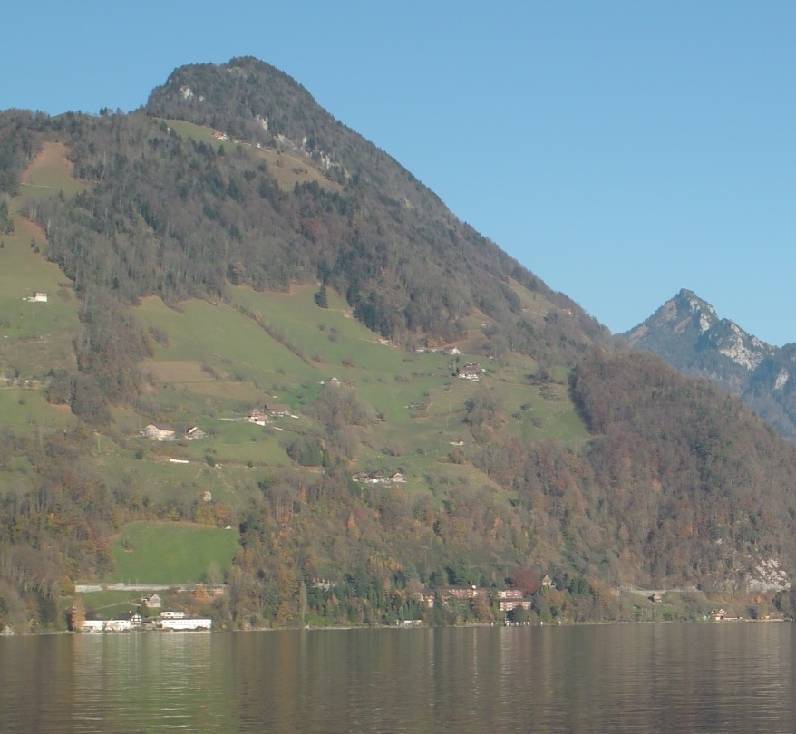 View of Rotschuo, canton of Schwyz, Switzerland.